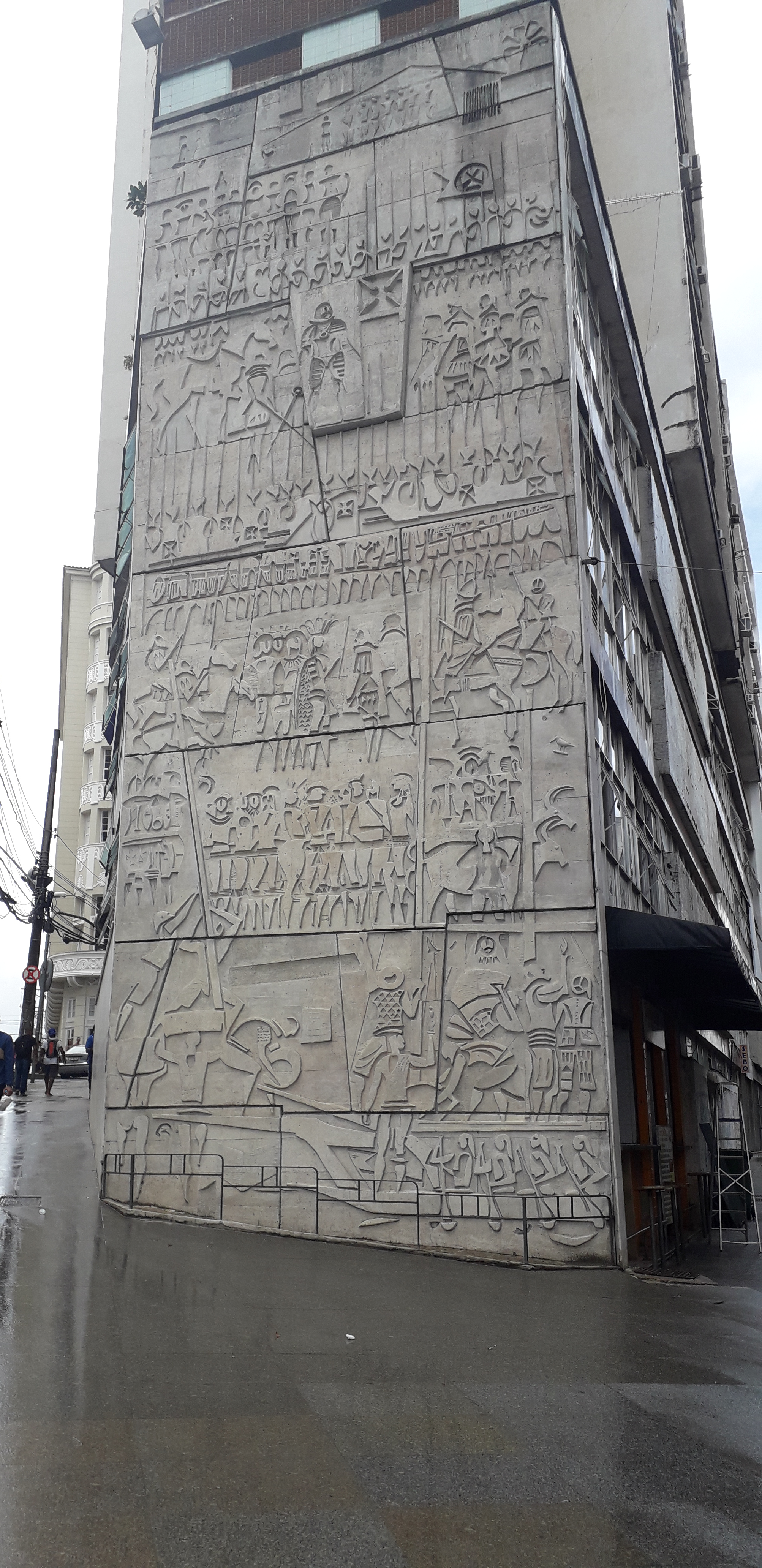 Exterior view of the Bráulio Xavier Building, located between Chile Street (front) and Ruy Barbosa Street (back), in the Historic Center of Salvador, Bahia. The building is for commercial use, with offices and some shops. On the side of the building, facing Castro Alves Square, there is a panel by artist Carybé, listed by the historical heritage.